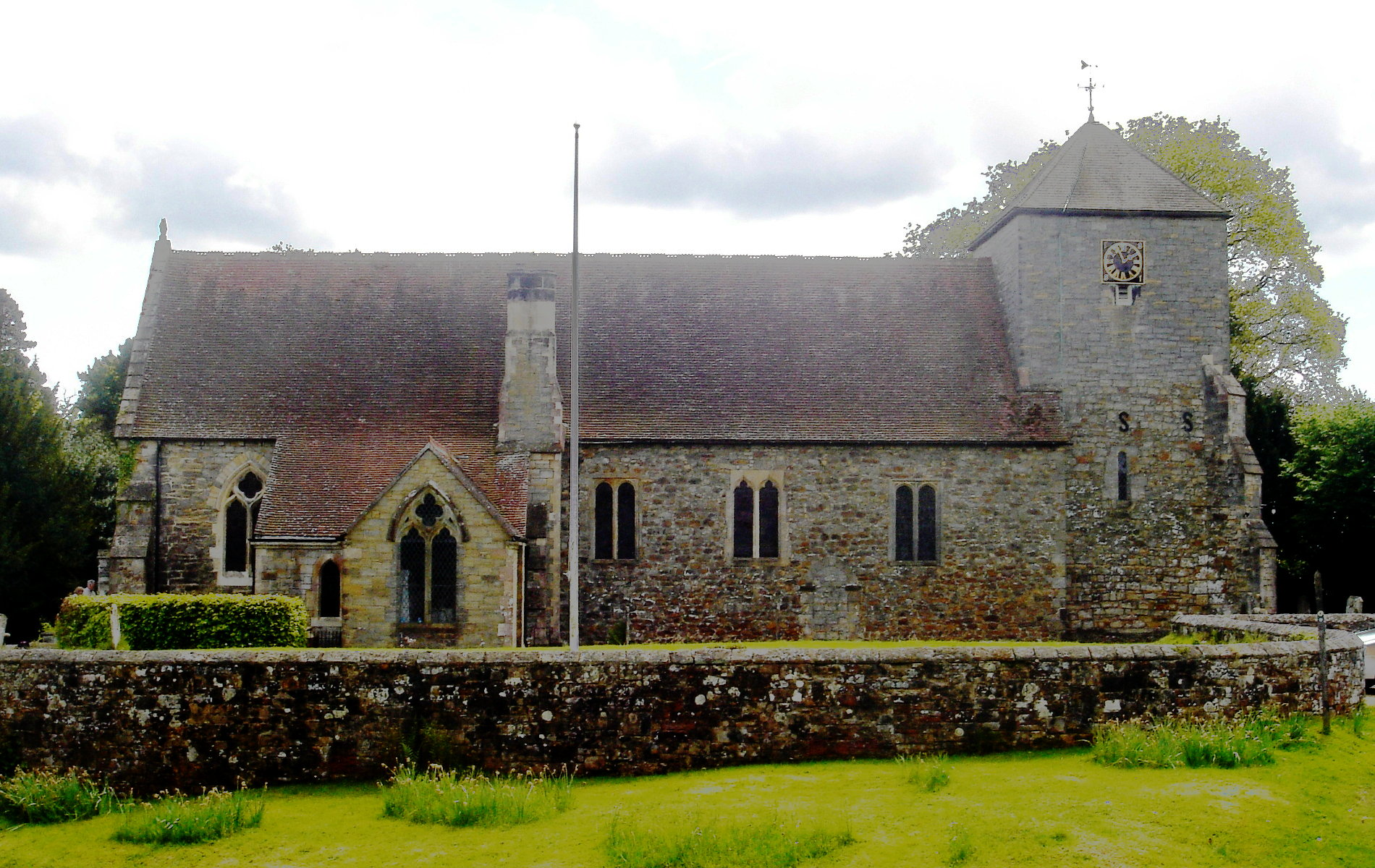 St Mary's Church, The Green, Slaugham, District of Mid Sussex, West Sussex, England. The parish church of Slaugham, also covering the nearby villages of Pease Pottage, Handcross and Warninglid; listed at Grade I by English Heritage (IoE Code 302746)